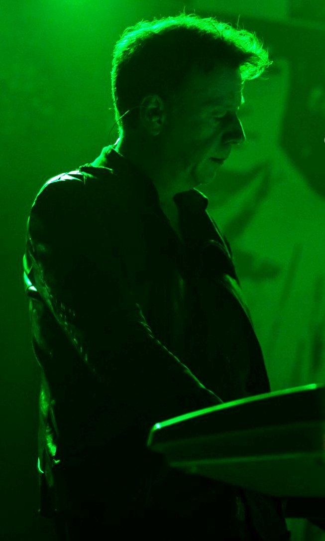 German singer Peter Heppner with Band during the "Confessions & Doubts Tour 2018" at Alte Spinnerei Glauchau, Germany.